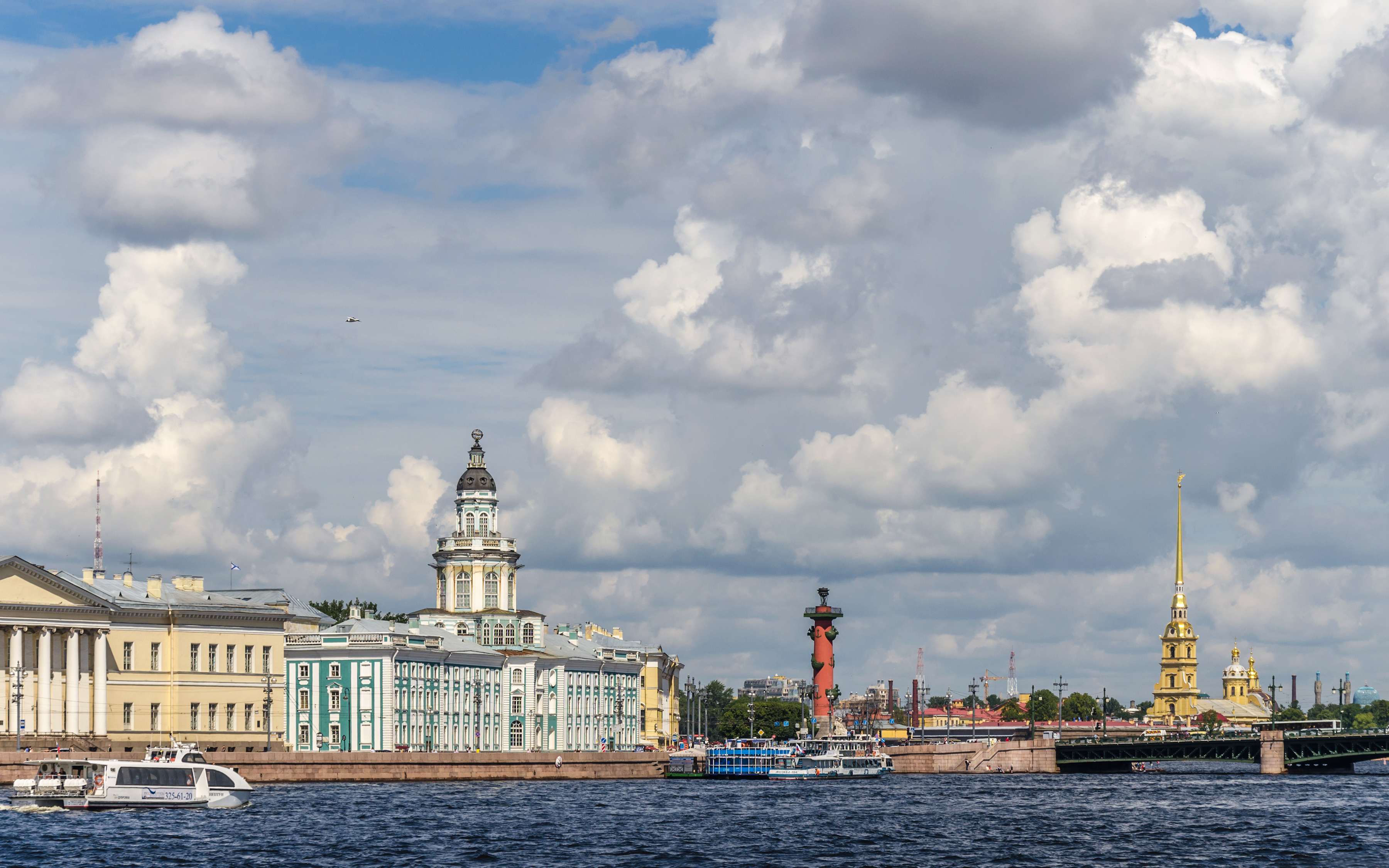 Neva river in Saint Petersburg. View to Universitetskaya Embankment, Kunstkamera museum and Peter and Paul Fortress